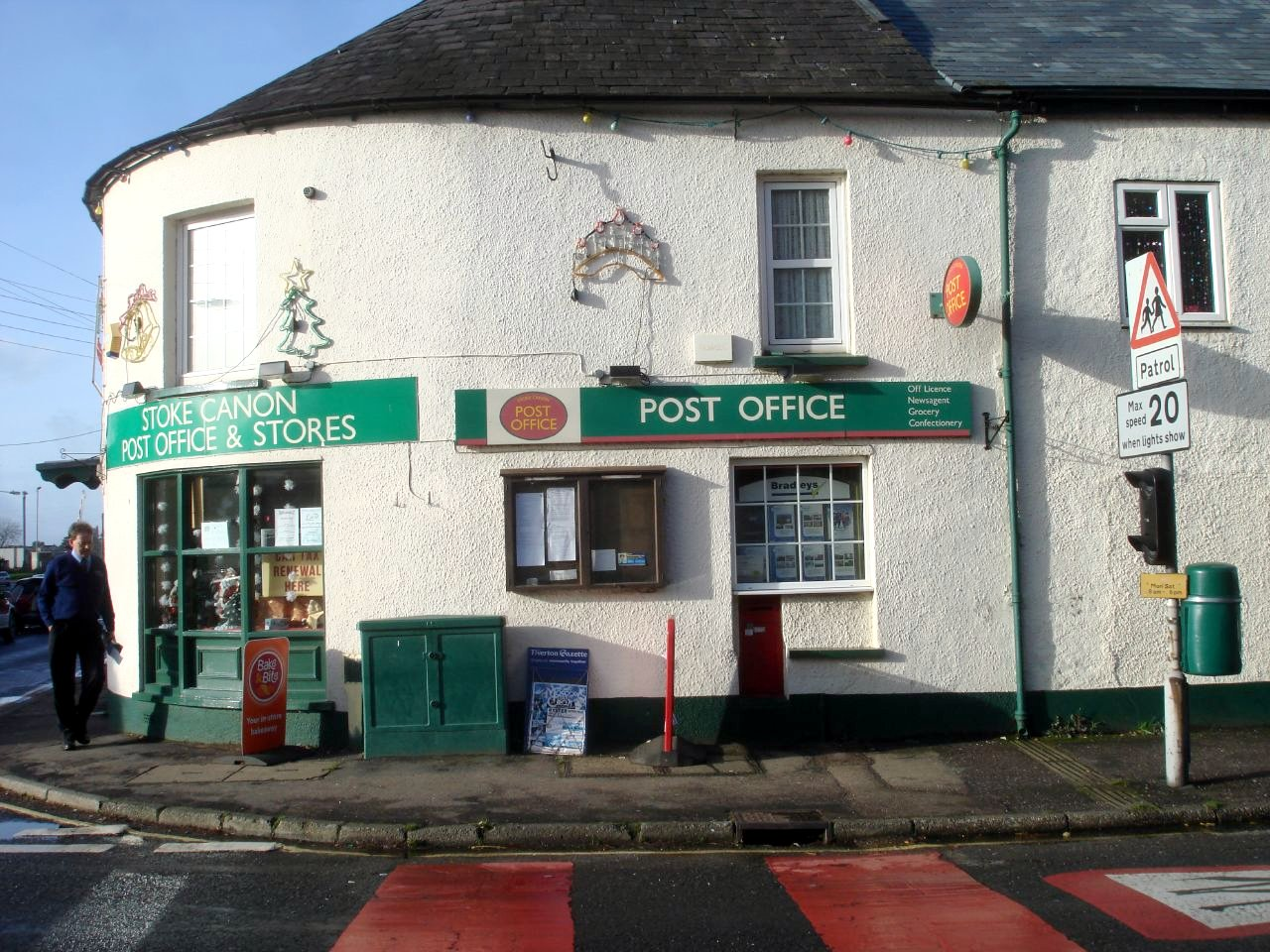 Christmas cards to Australia, New Zealand, California ... sent from here today ...